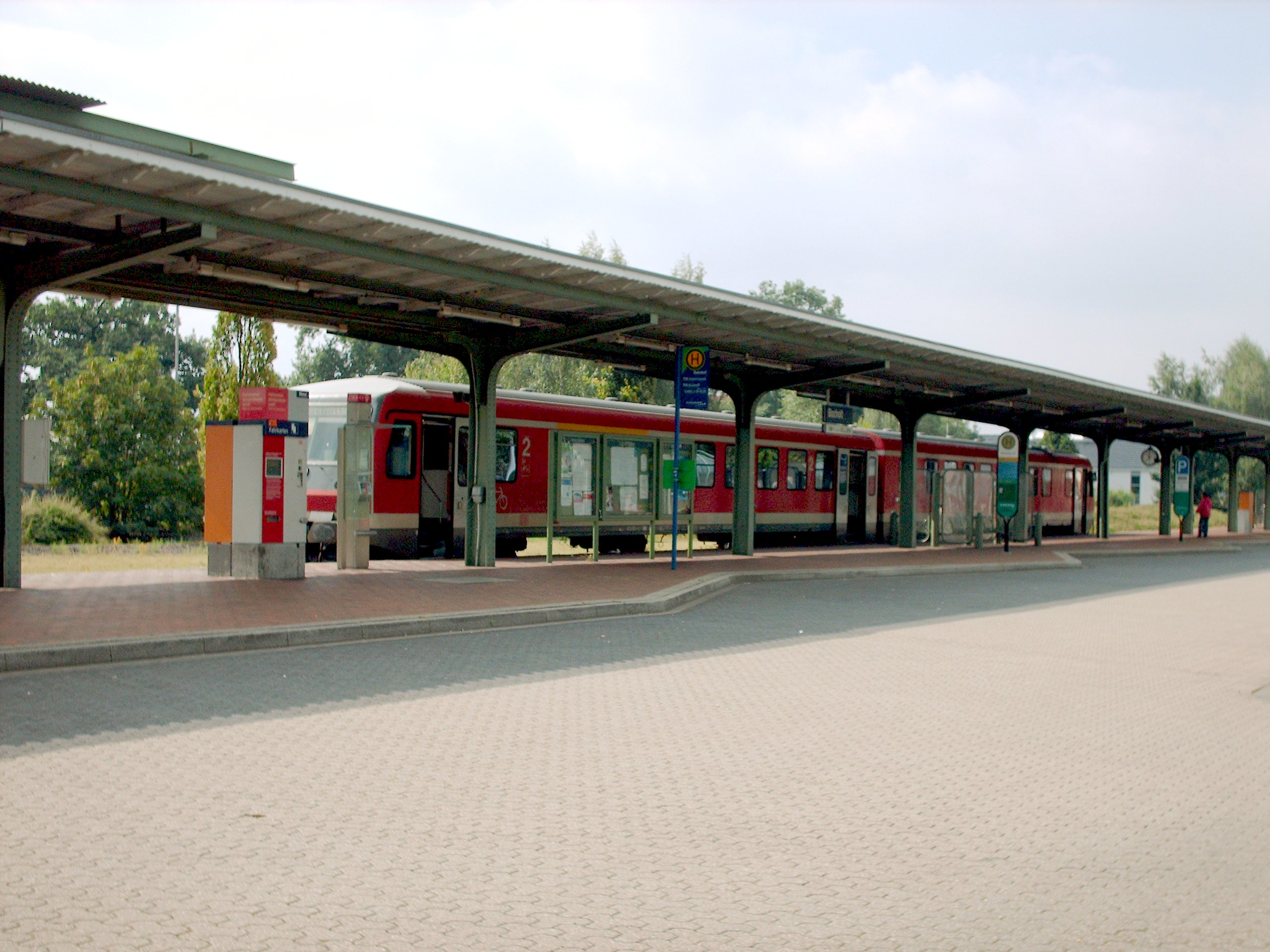 Bocholt station, Bocholt, Germany check usage